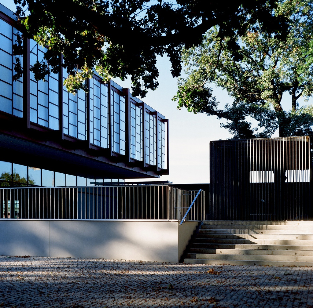 21er-Haus, Belvedere, Vienna, and Wild Cube